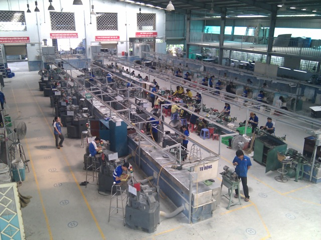 Example of Shell Button Factory in Vietnam Garment Industry